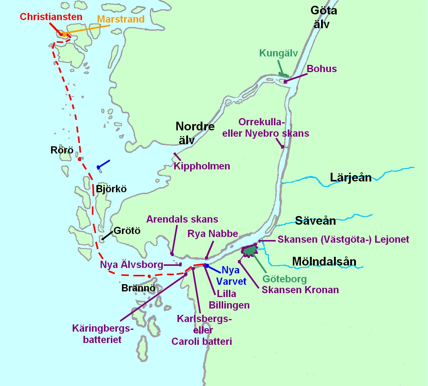 The Danish attack on Nya Varvet navalbase, Gothenburg, Sweden, during the night 26-27 September 1719. Red: Danish navy, Blue: Swedish navy